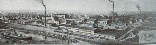 Jönköping Match factories in Jönköping, Sweden around 1910.